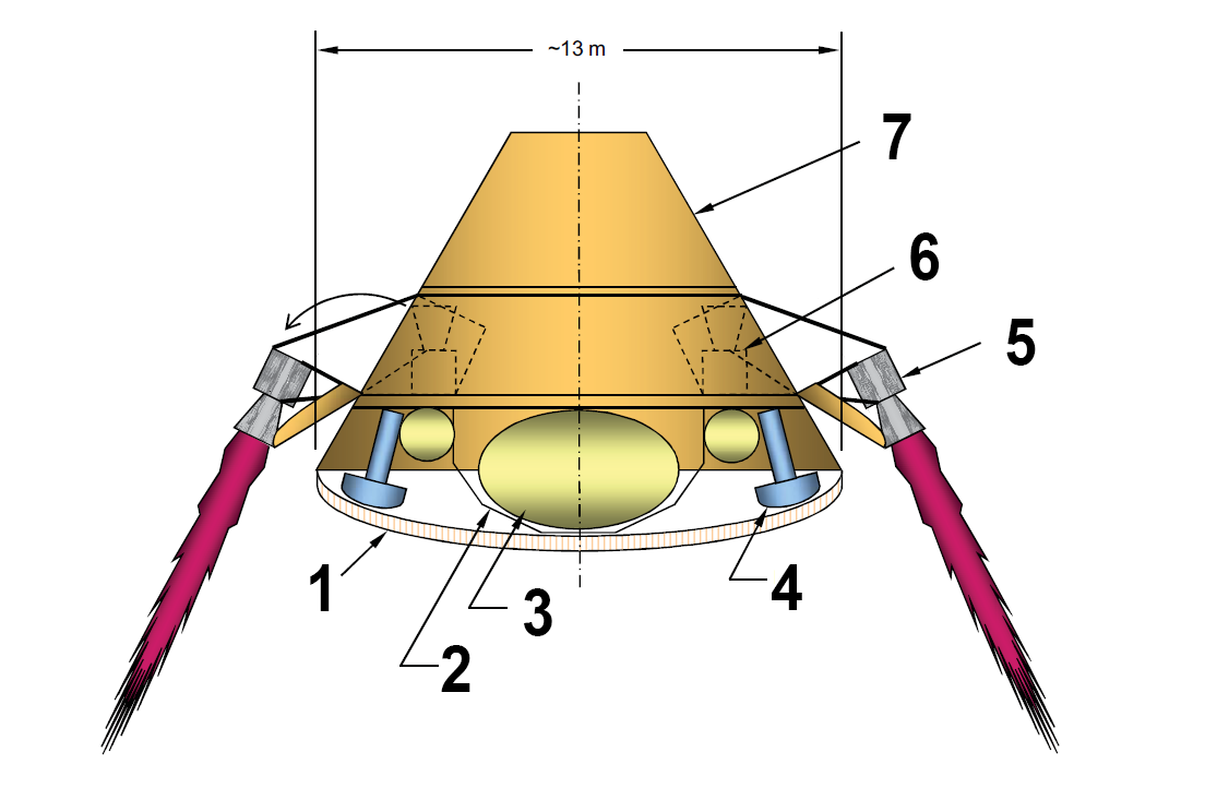 mars EDL concept : Deployable Supersonic Retro-Propulsion Concept